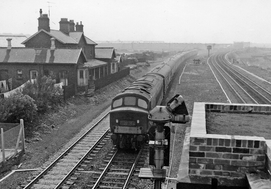 Birtley Station (remains), with Diesel-hauled Down express. View southward, towards Durham, Darlington, York etc. on ex-North Eastern East Coast Main Line, also towards Consett via Ouston Junction. This station was closed on 5/12/55 and in 1965 appeared to be a private house. The lines on the right are the Slow lines. The Down express is headed by a Type 4 Diesel, unidentified. [Note: the photograph submitted previously, my NZ2655 : Birtley Station (remains), was NOT of Birtley - and remains a mystery].